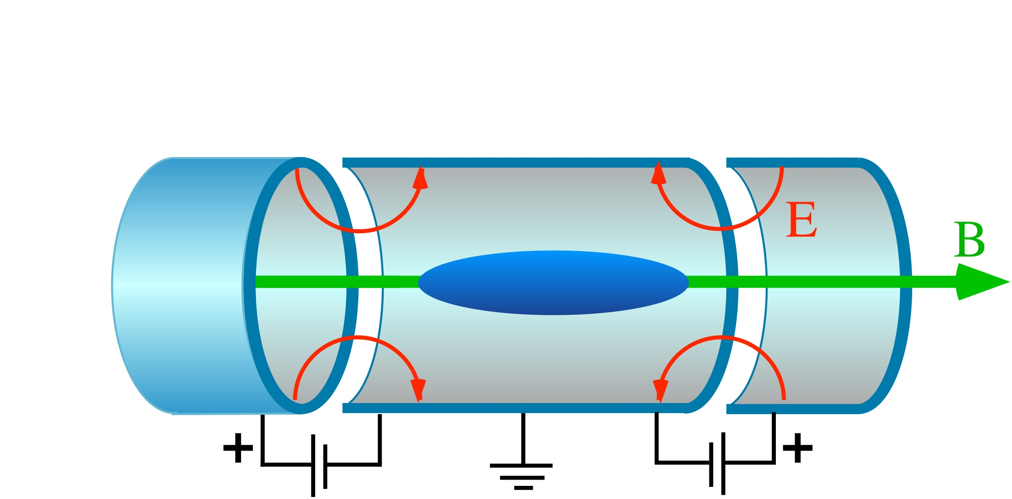 Cutaway Diagram of a cylindrical Penning trap with a uniform axial magnetic field B and biased cylindrical electrodes